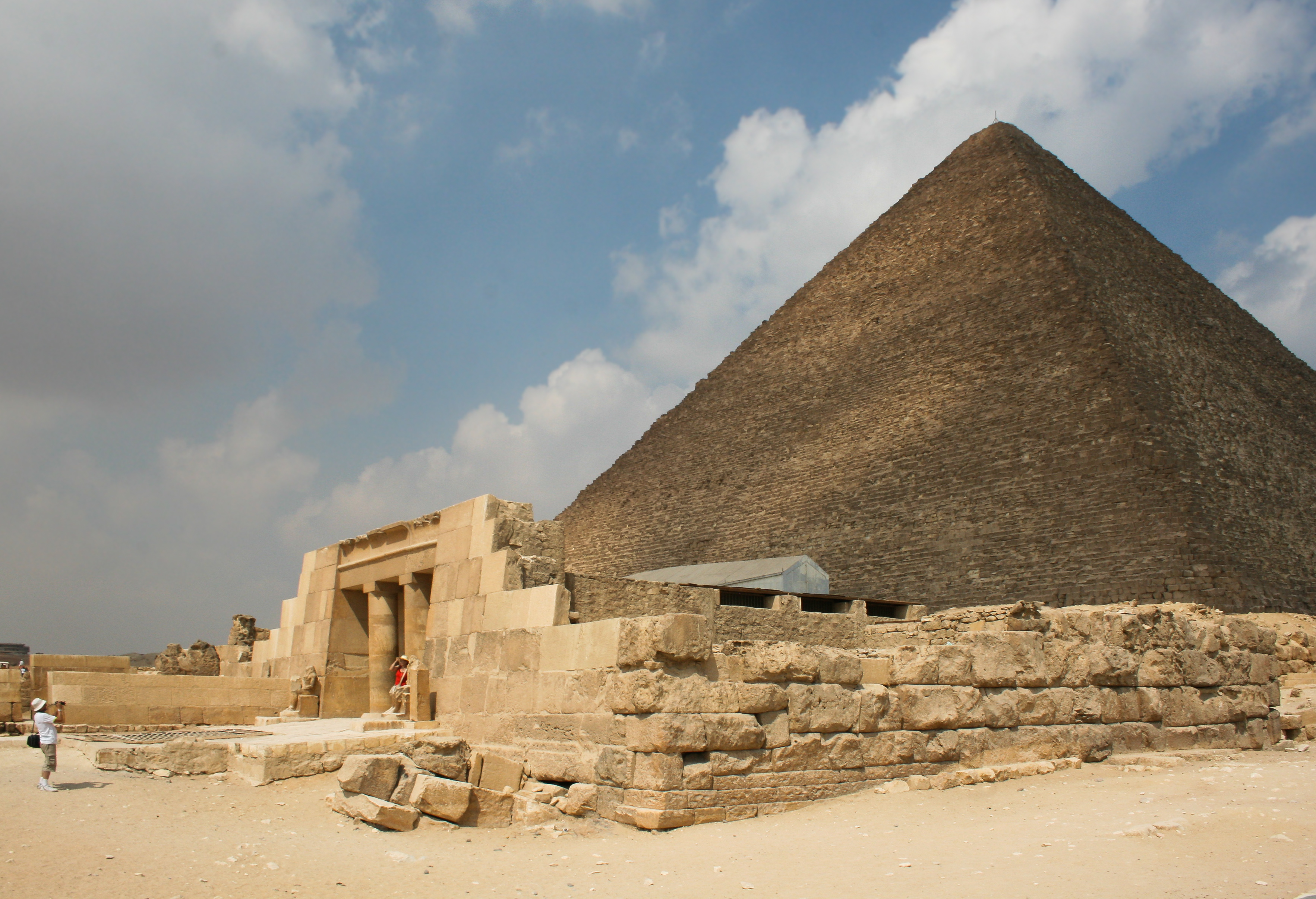 Great Pyramid of Giza, Giza, Egypt